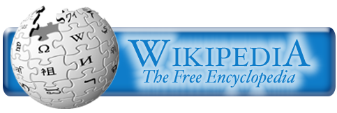 Wikipedia-banner